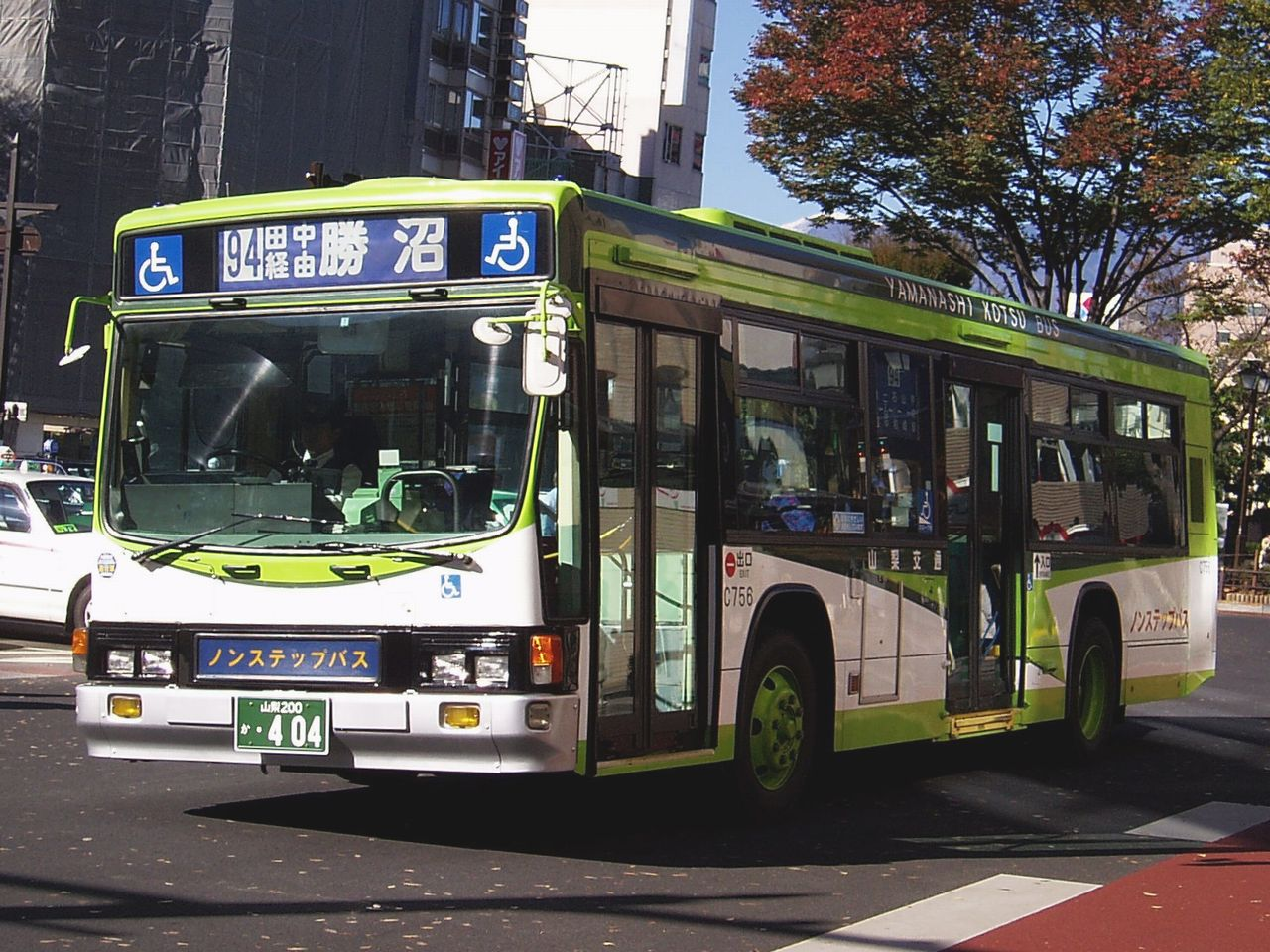 Yamanashi Kotsu Non-Step Bus from Kokusai Kogyo Bus Isuzu KC-LV832L 2007.11.13 Photo by Cassiopeia_sweet.